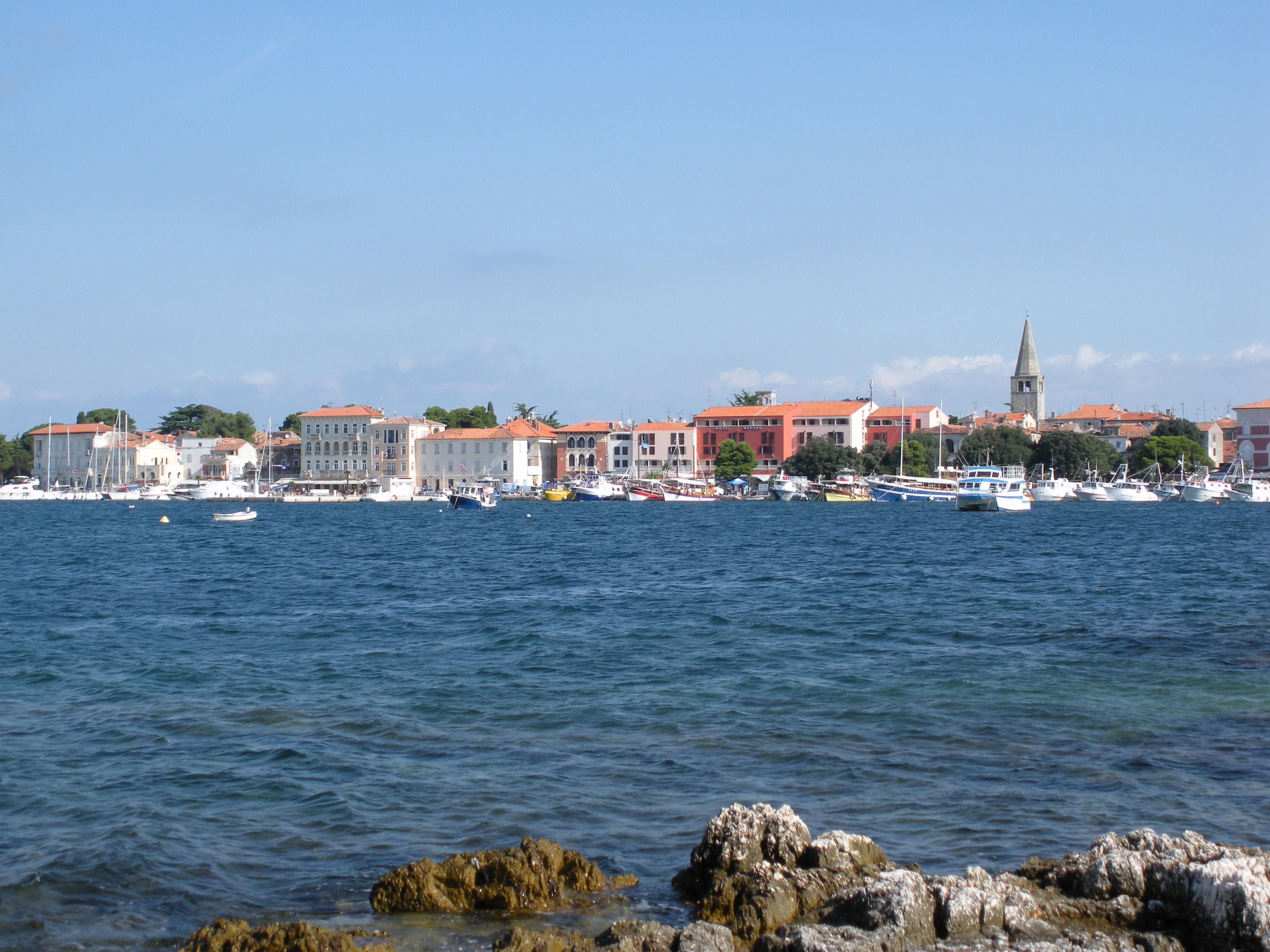 Porec, Croatia, cityview, taken by uploader on visit 2008